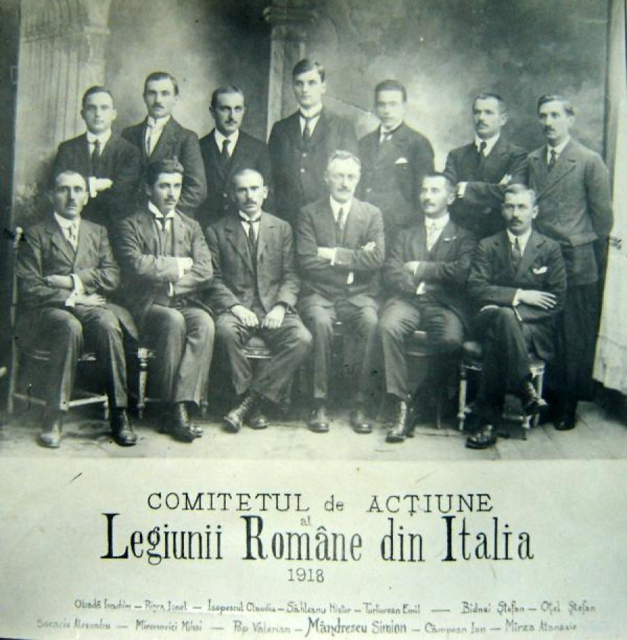 Fotografie a Comitetului de Acțiune al Legiunii Române din Italia